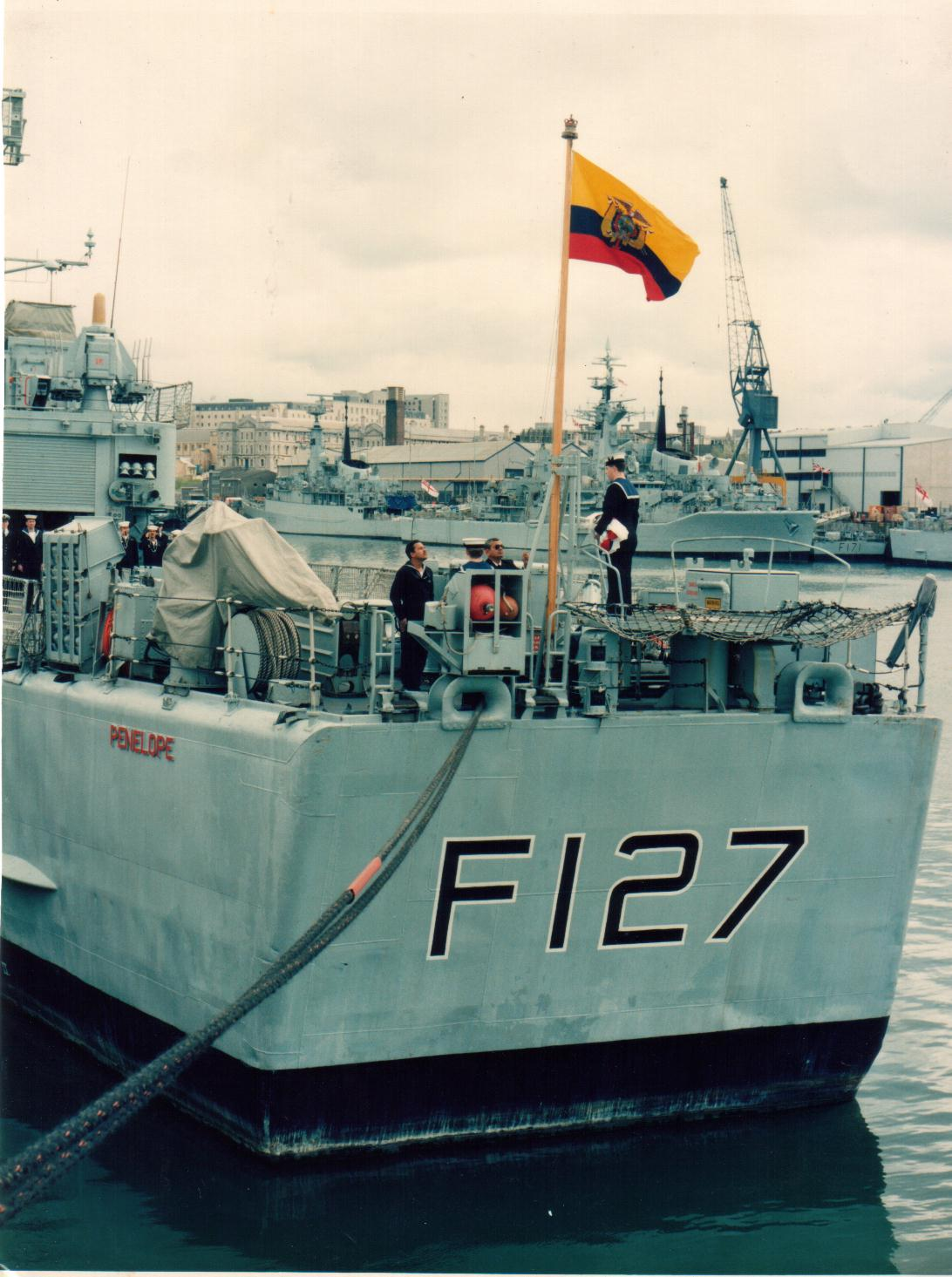 The former British frigate HMS Penelope (F127) alongside in Devonport during the transfer from the Royal Navy to Ecuador in 1991.